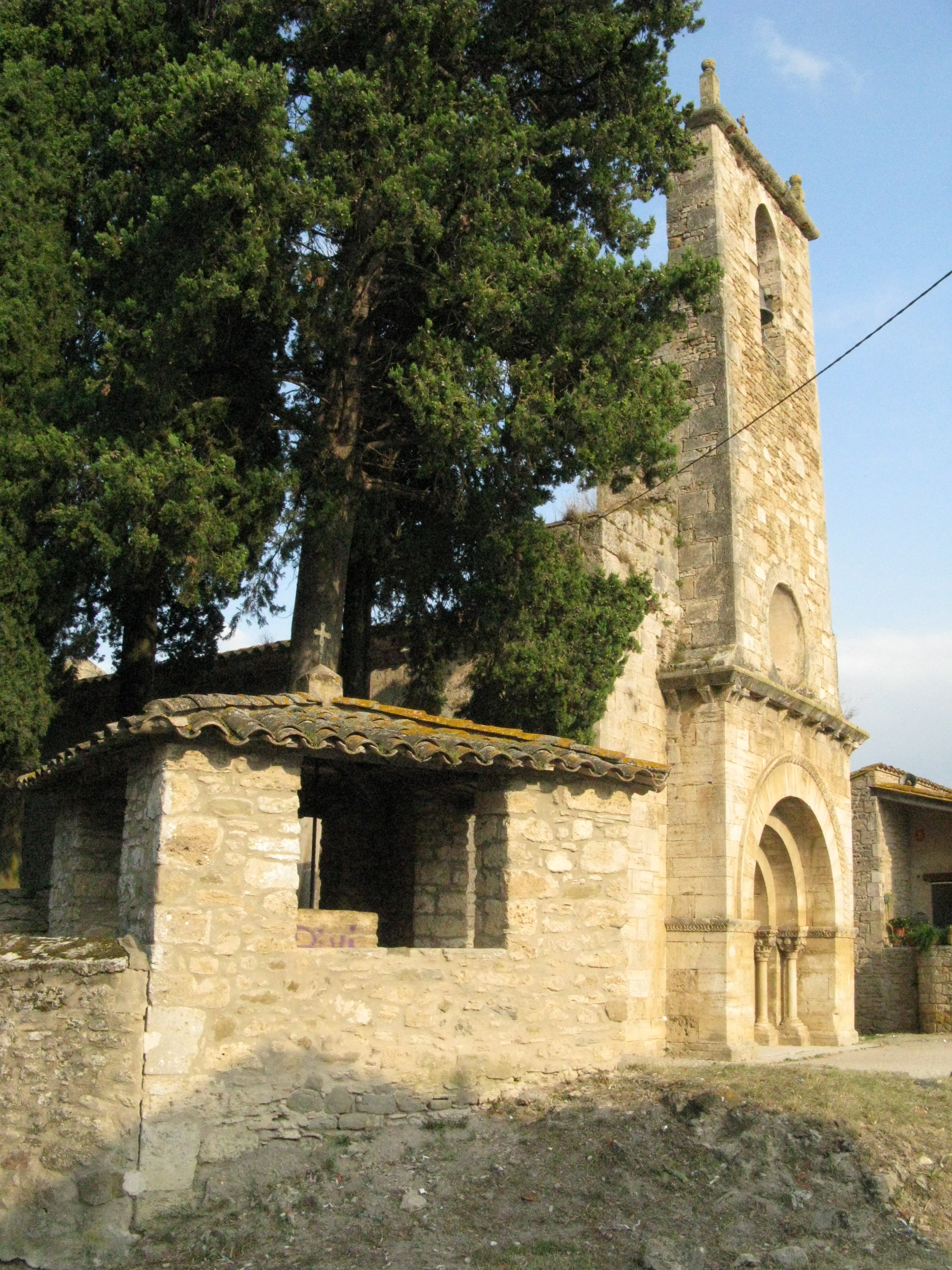 Romanesque Church Santa Maria de Porqueres with Comunidor, Catalonia